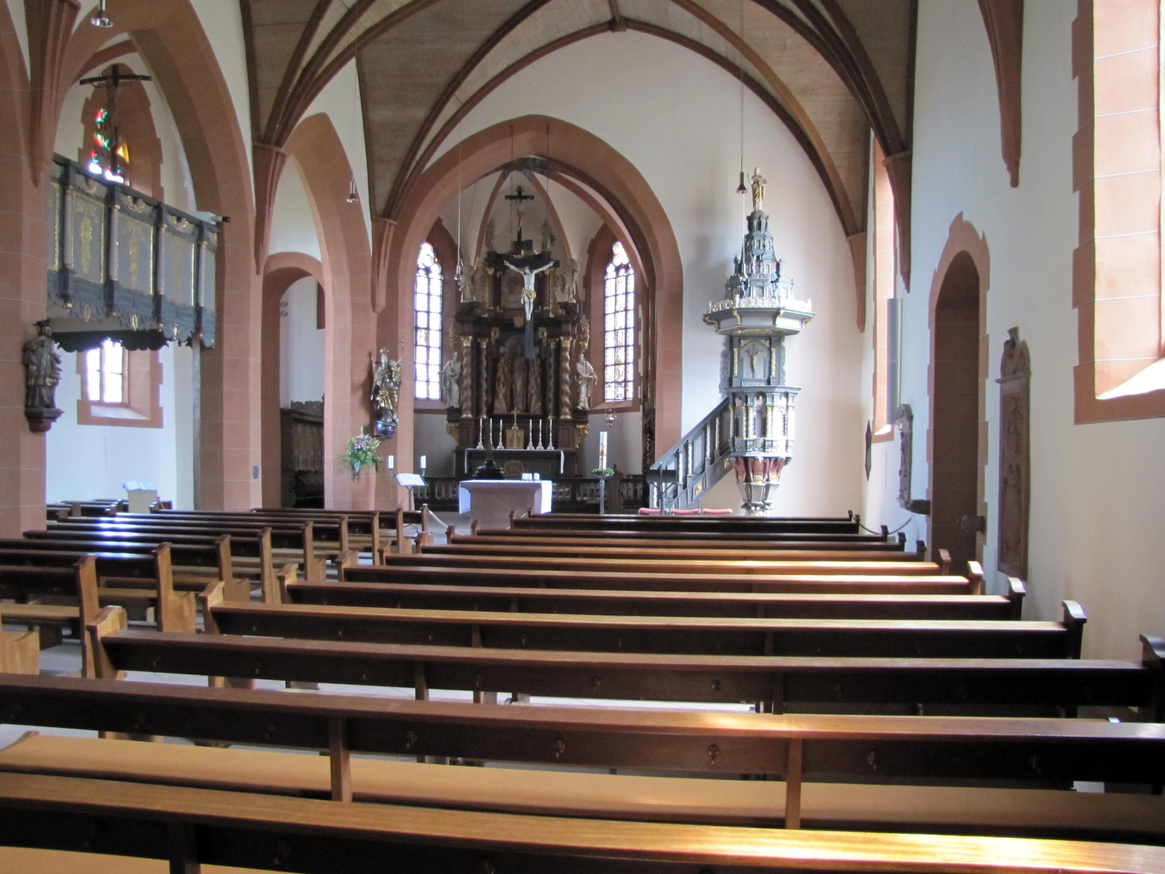 Nave of Saint Ursula church in Oberursel, Hesse, Germany.